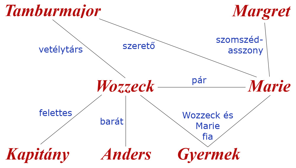 Connection system of main characters in Berg's Wozzeck